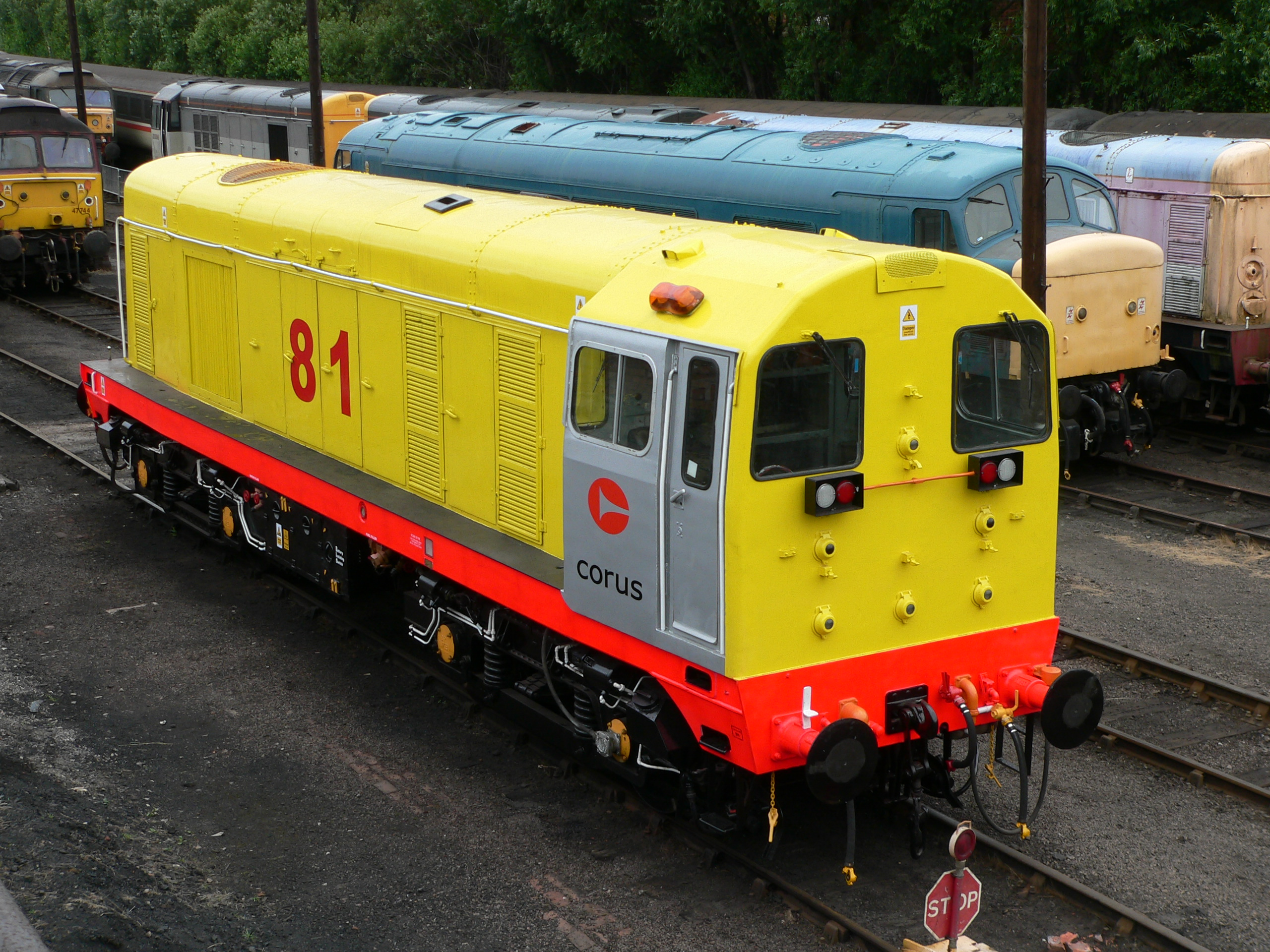 Corus 81 (Ex BR 20056) in Day-Glo livery for working at Scunthorpe steel works. Photo taken at Barrow Hill engine shed.